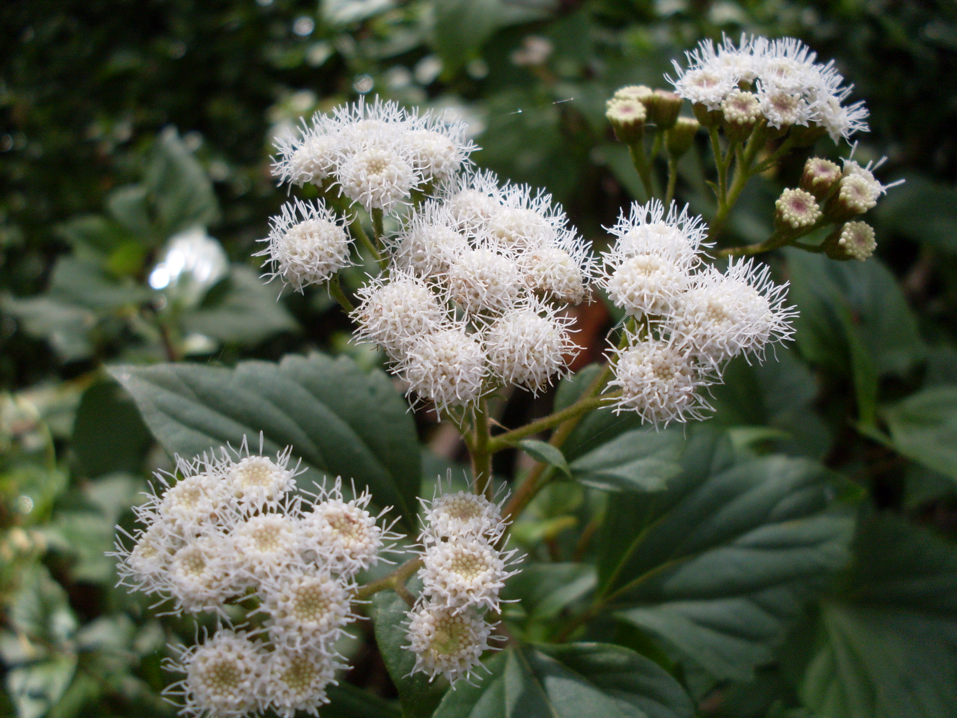 Crofton Weed (Ageratina adenophora), a noxious weed, in flower. Como NSW Australia, October 2009.